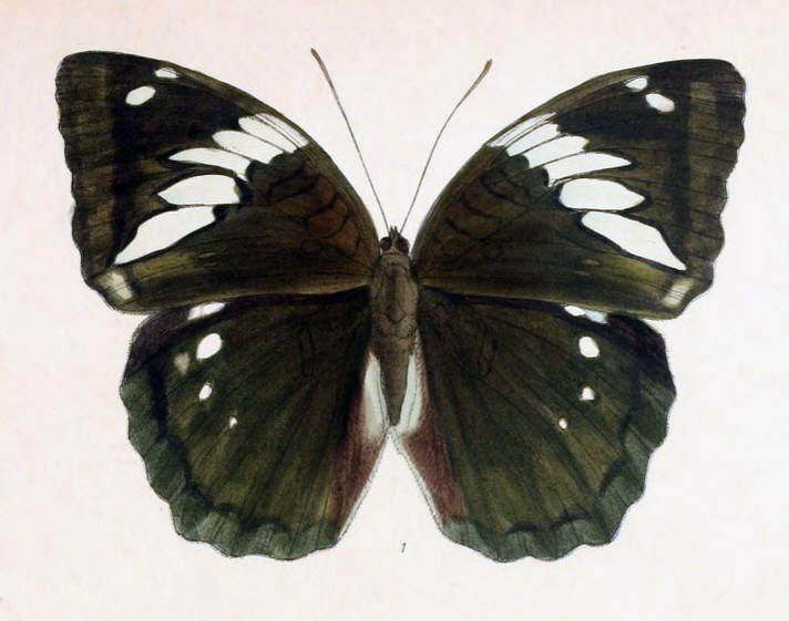 Mahaldia iva